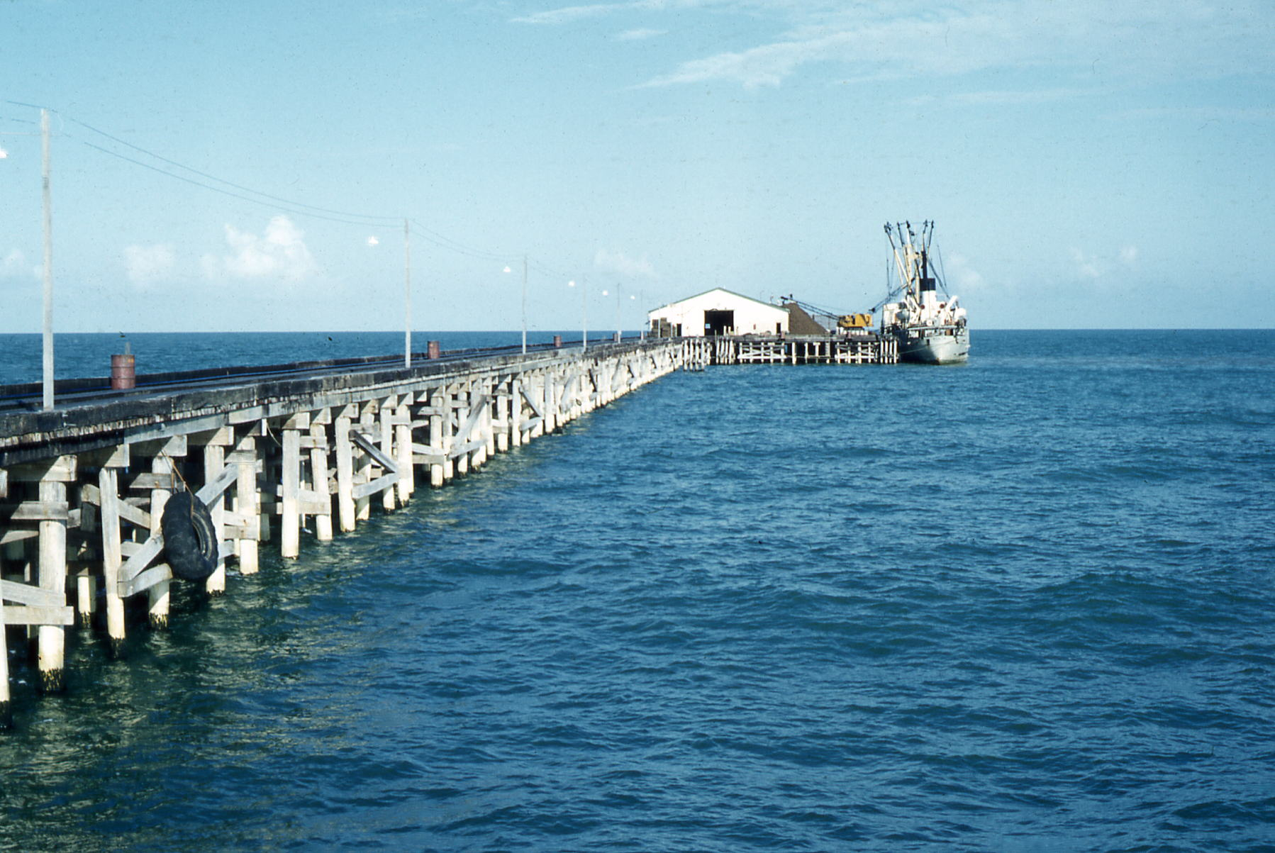 Photo of Prinzapolka dock owned by La Luz Gold Mine in Siuna and Bonanza, for the La Luz Gold Mine complex (1936-1968). The town of Siuna, Nicaragua was the site of La Luz Mining company, which was active from 1936 to 1968. There was migration from other areas of the country to work in the gold mine during these years, including people from the coast and indigenous groups. The mine was shut down in 1968 due to damage of the Ei River Hydro Electric Plant.[1]